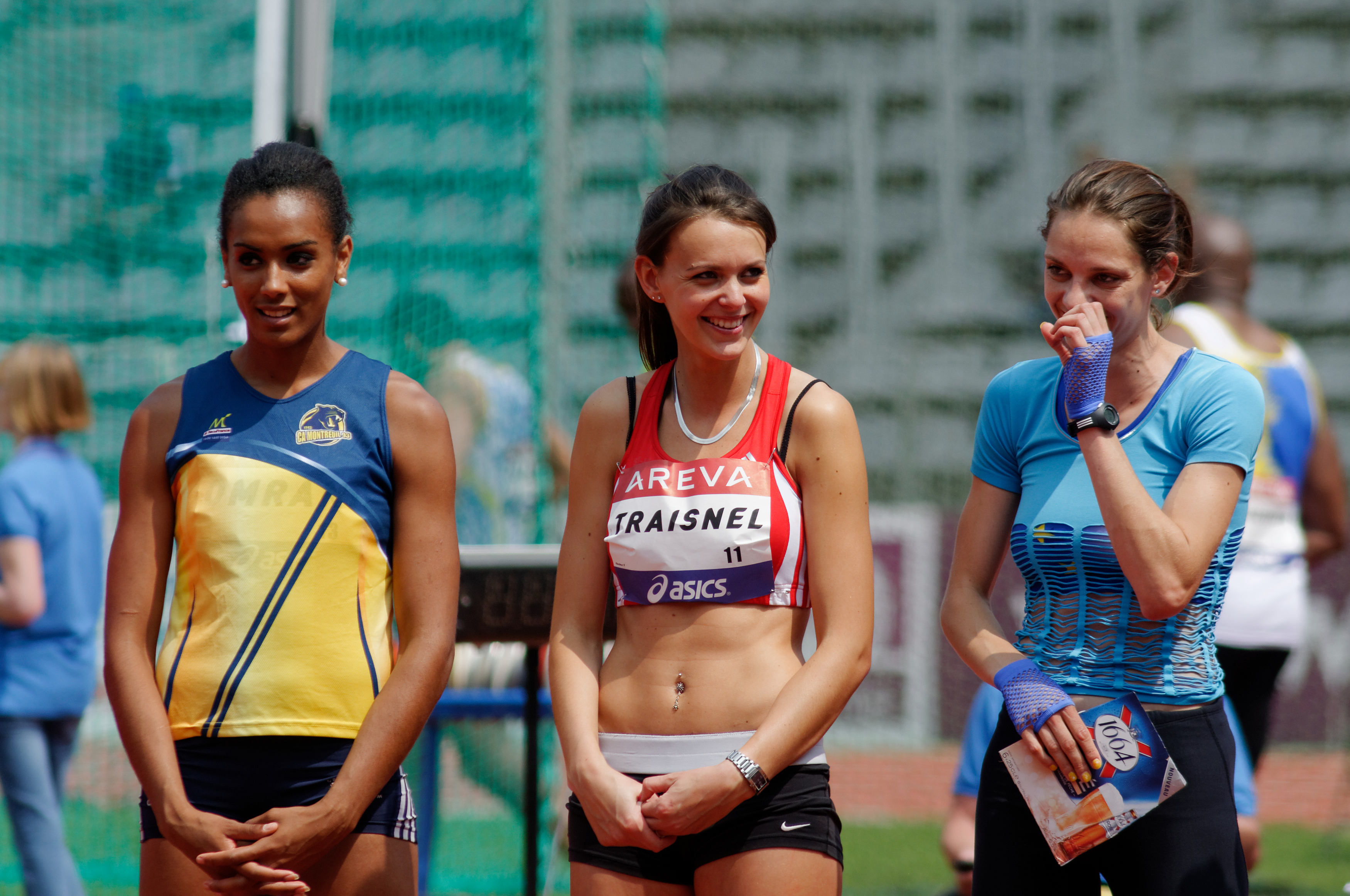 From left to right, Yassmina Omrani, Chloé Traisnel, and Melanie Melfort in the women's high jump final during the French Athletics Championships 2013 at Stade Charléty in Paris, 13 July 2013.